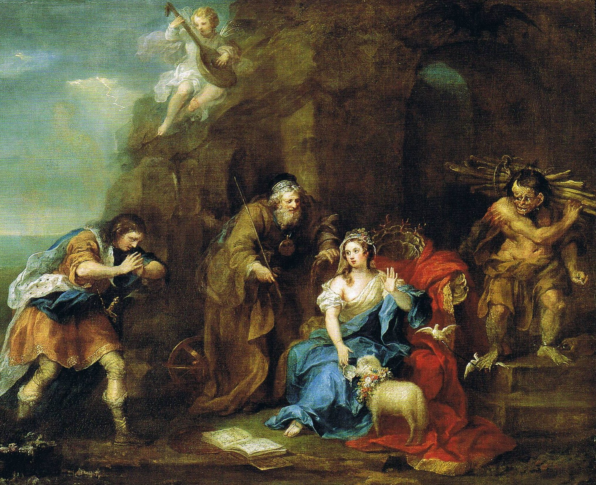 A Scene from Act I, Scene 2 (Ferdinand courting Miranda) of Shakespeare's „The Tempest“label QS:Lde,"Gemälde nach Shakespeares „Sturm“, Akt I, Szene 2: Ferdinand umwirbt Miranda. Links hinter Miranda steht der weise Zauberer Prospero und rechts sein Sklave Caliban"label QS:Len,"A Scene from Act I, Scene 2 (Ferdinand courting Miranda) of Shakespeare's „The Tempest“"